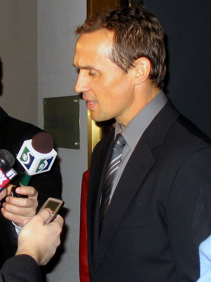 Steve Yzerman at his Michigan Sports Hall of Fame induction.